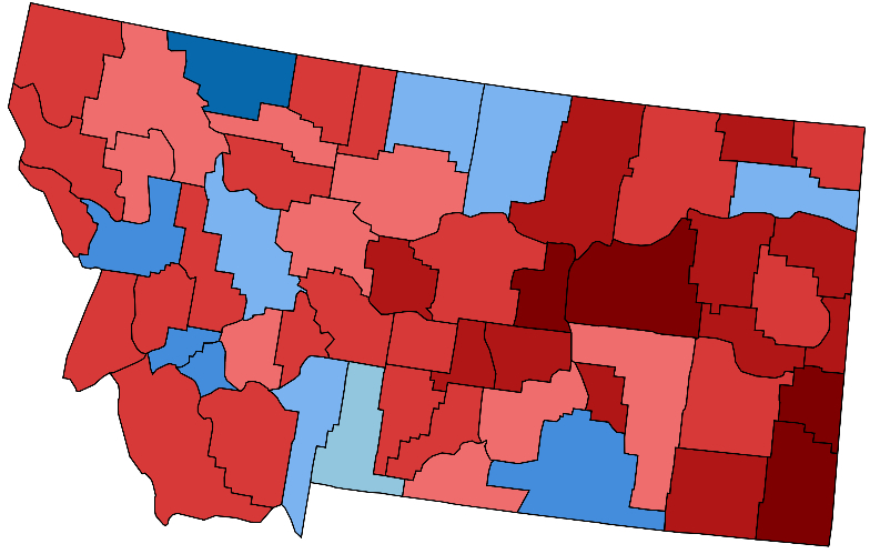 Result of the 2018 House Election in Montana where Greg Gianforte won reelection.